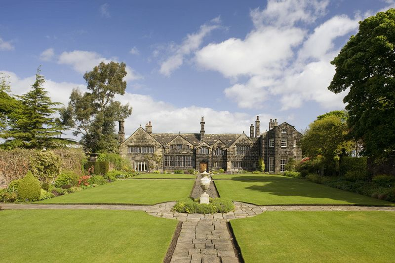 Royd Hall Manor With Southerly Garden